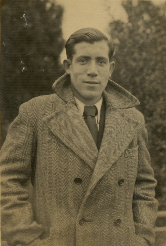 Alberto Errera, Larissa, who took part in uprising of prisoners in Auschwitz - Birkenau.